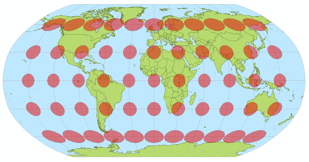 Tissot´s Indicatrix; Robinson Projection